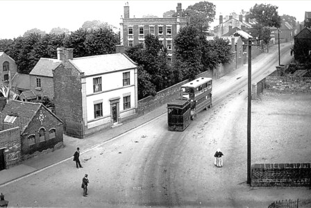 Steam tram in Sedgley, before 24 August 1901Taken from the upstairs window of Egginton's shop.